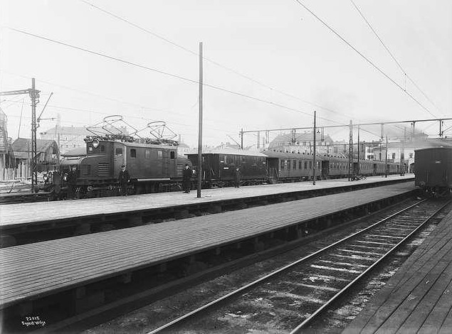 Oslo Vestbanestasjon on Drammenbanen, Norway; locomotive is NSB El 1.